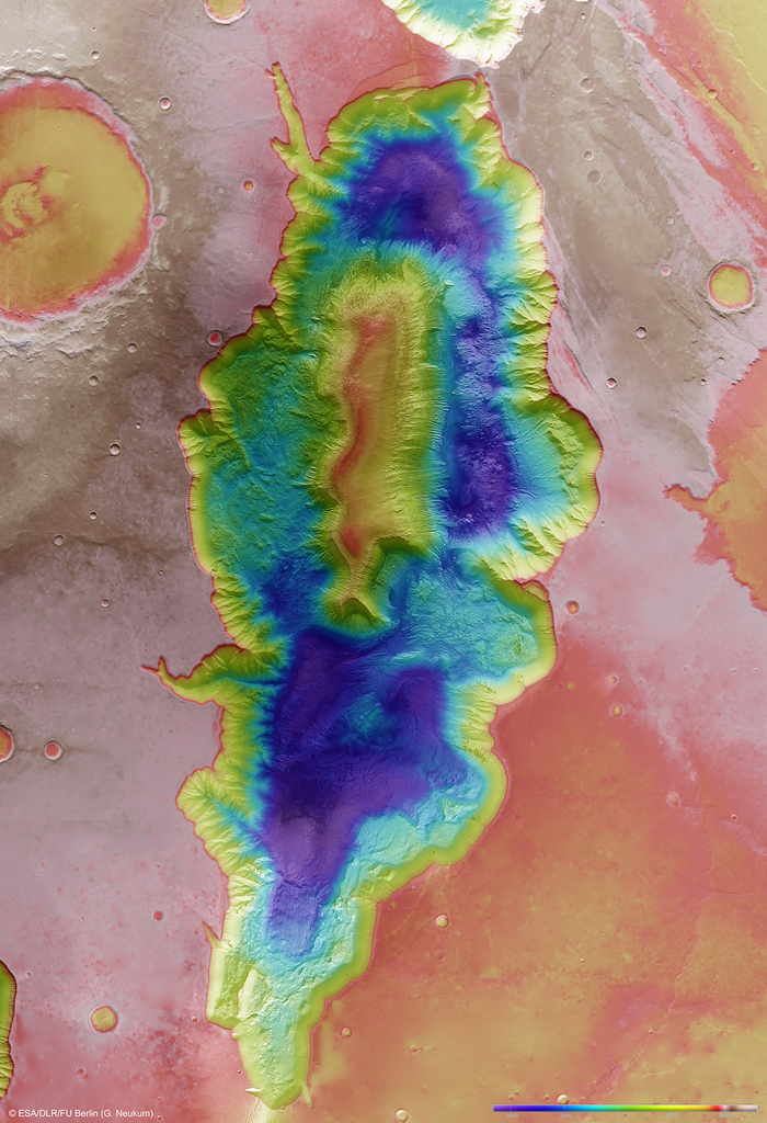 A topography map of Hebes Chasma on Mars.